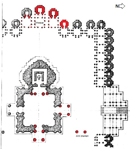 Plan of Rudra Mahalaya with one fourth of the surrounding structures, restored. At Sidhpur, Gujarat, India